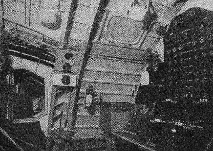 SNCASE SE-200 photo from L'Aerophile September 1945